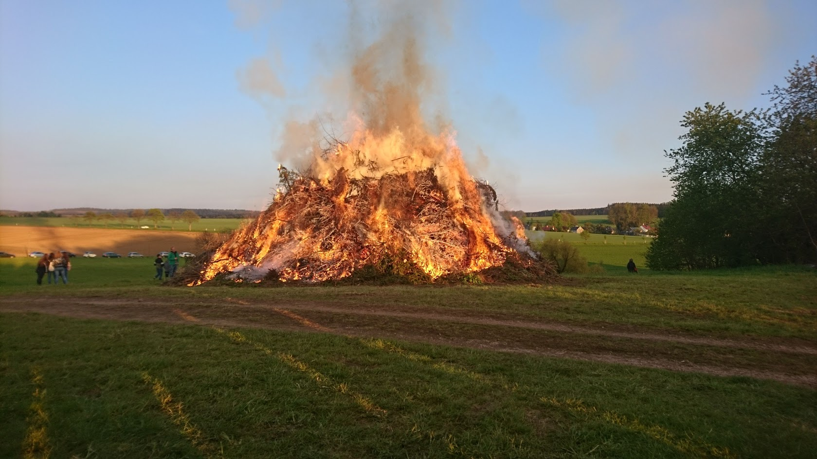 Bonfire between Schönfels and Altrottmannsdorf to Walpurgis on April 30, 2019 shortly after the ignition by the youth fire department Schönfels.